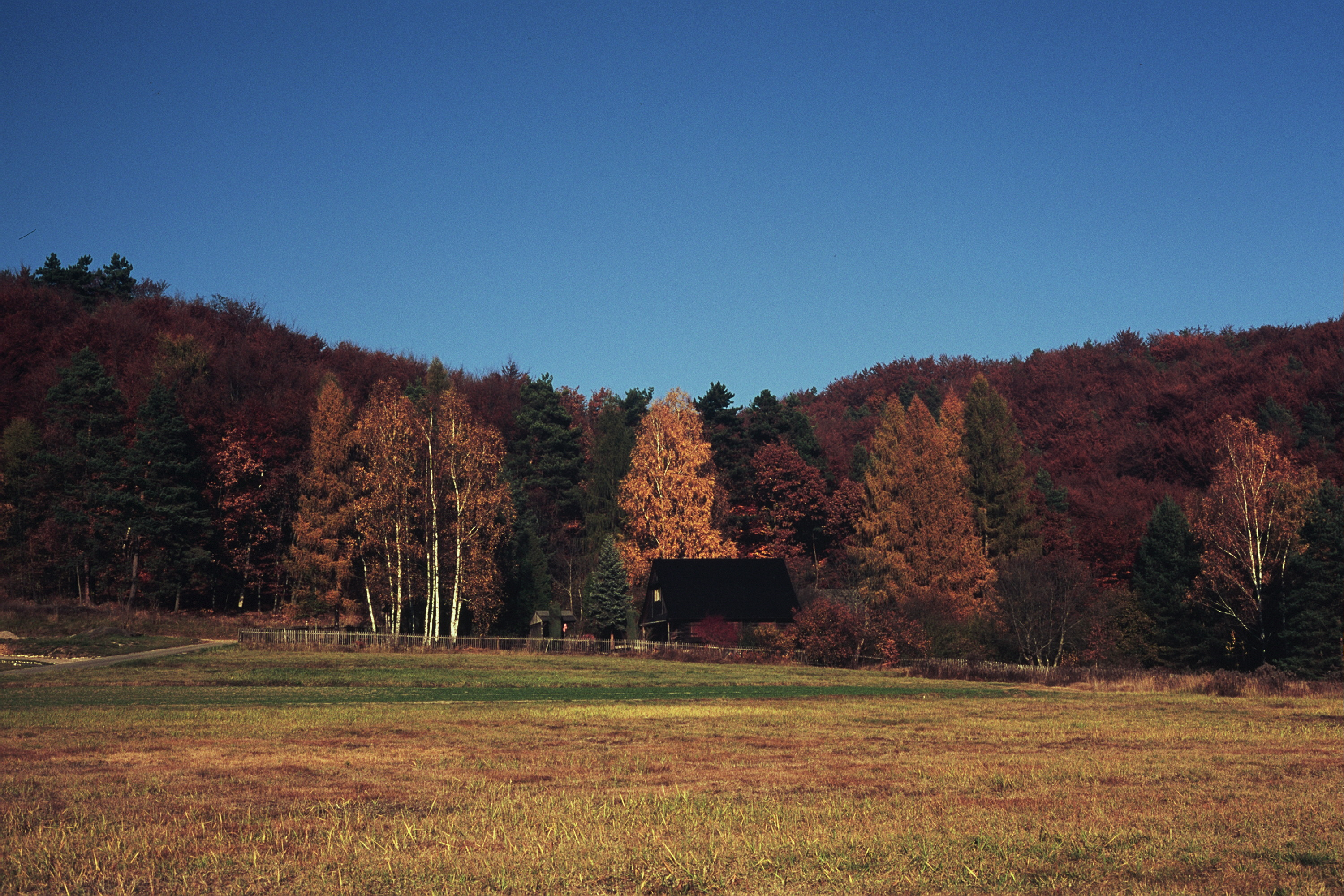 Autumn scene in Poland